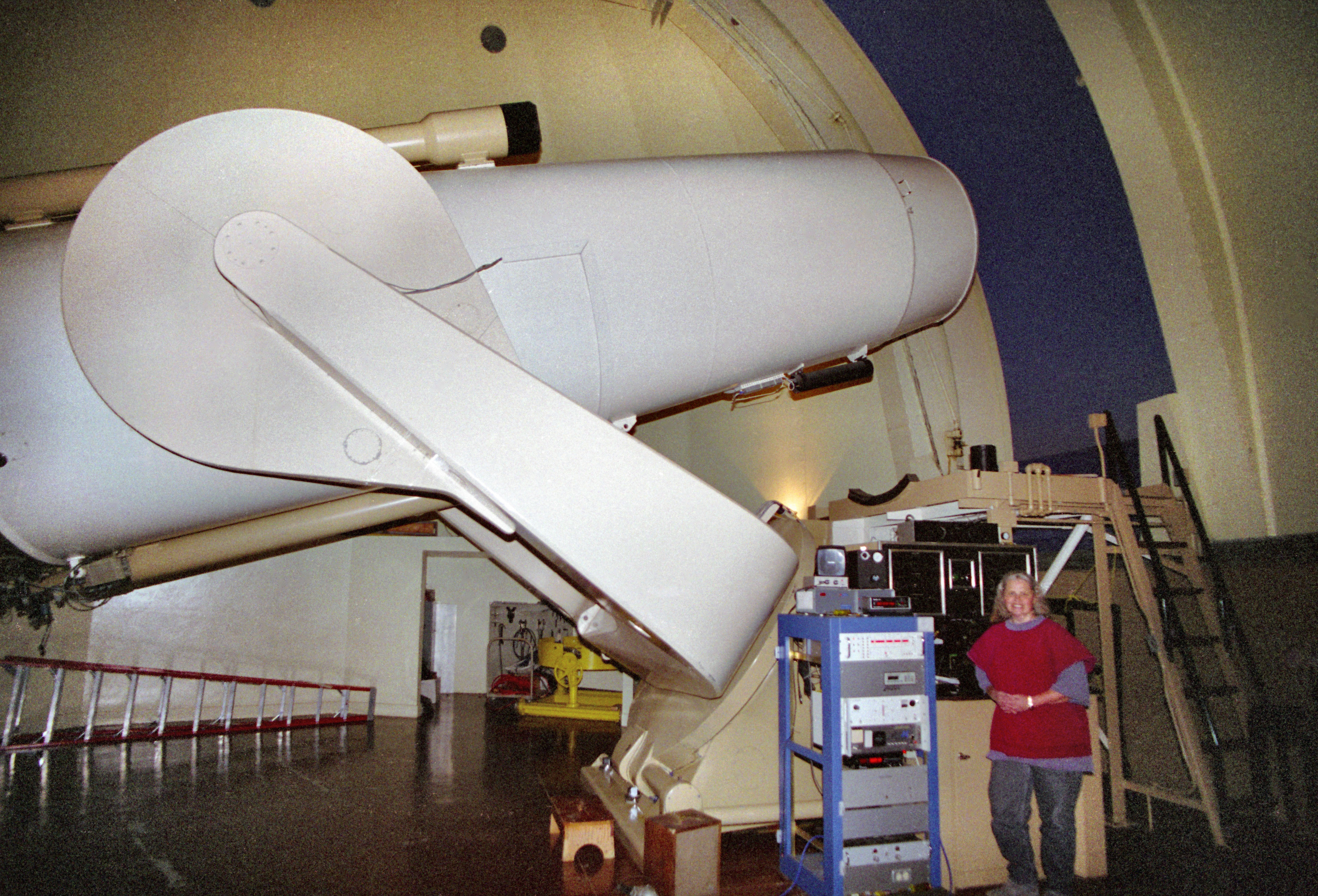 A picture of astronomer Jean Mueller standing in front of the Palomar Observatory 48" Oschin Schmidt camera Telescope. It was taken at the Palomar Observatory